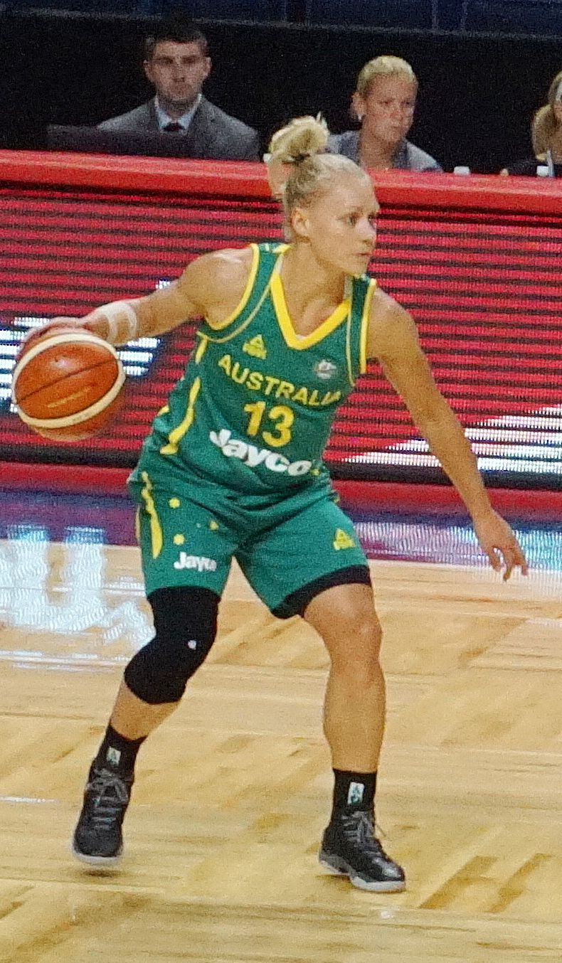 Erin Phillips, Australian National Senior team. Taken at Webster Bank Arena (Bridgeport, CT) at the Olympic exhibition game between Australia and France